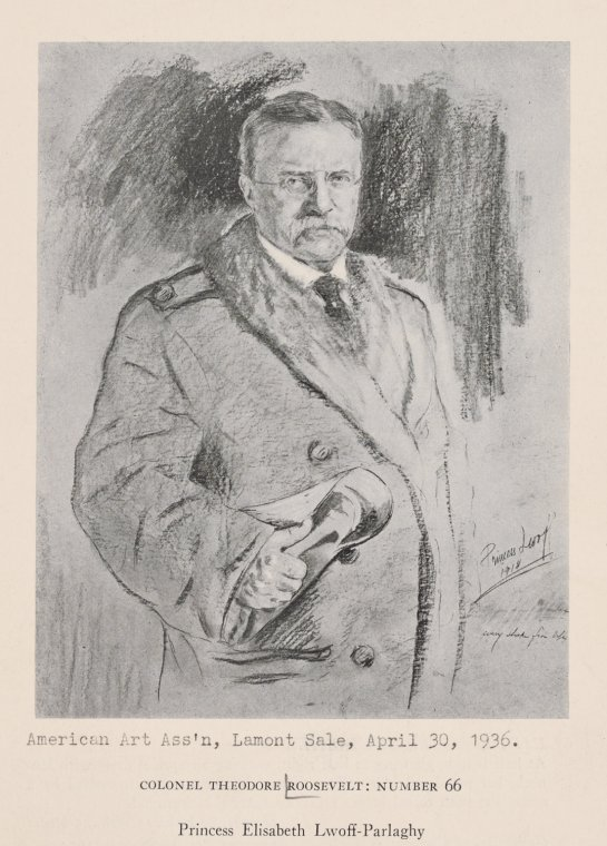 Portrait of Colonel Theodore Roosevelt painted by Vilma Lwoff-Parlaghy